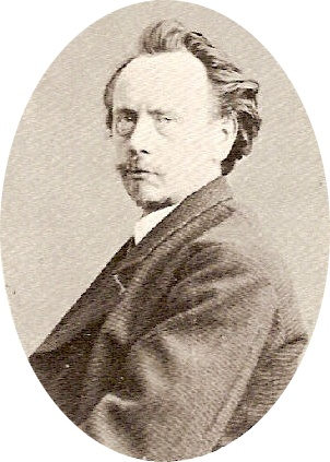 Photo of Friedrich Wilhelm Mengelberg, circa 1900